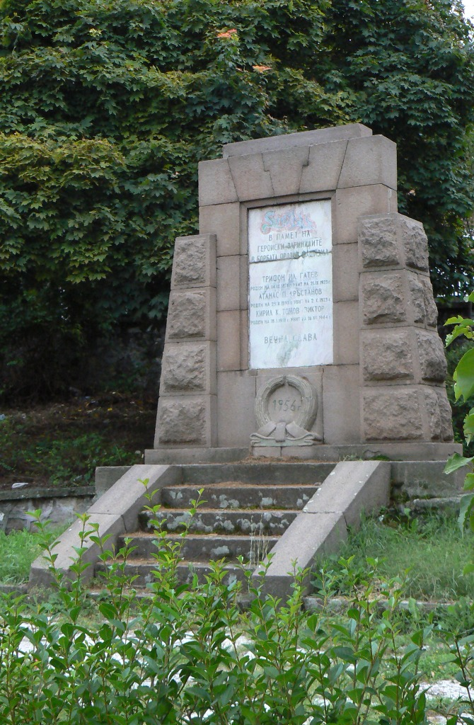 War victims monument in Brestovitsa, Bulgaria